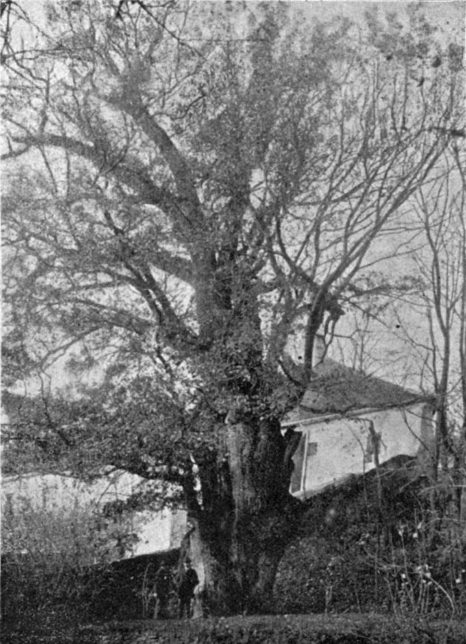 Zizka's oak in Namest nad Oslavou, Czech Republic